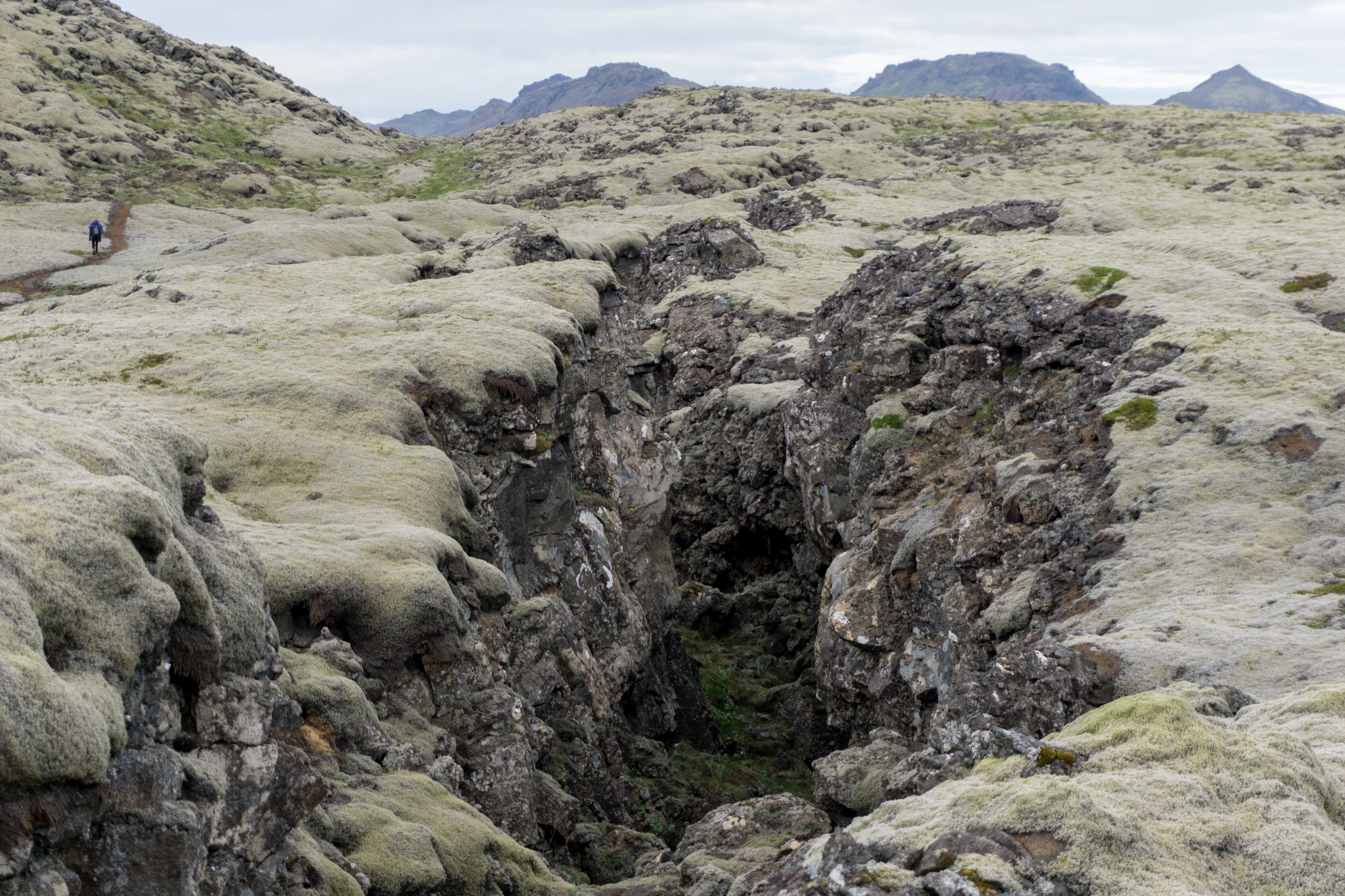 Volcanic landscape taken from the hiking trail Reykjavegur, Iceland